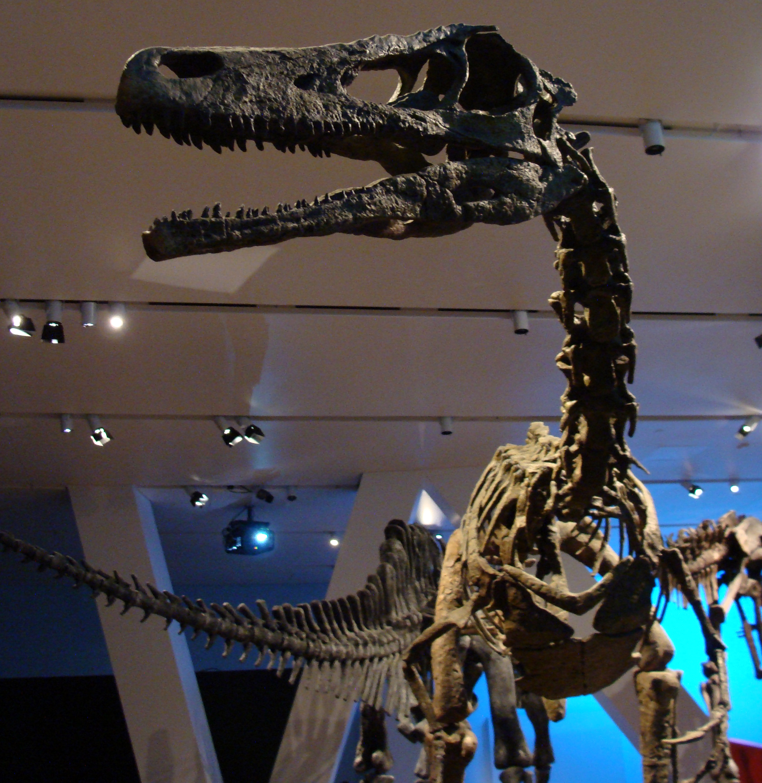 Austroraptor on display at the Royal Ontario Museum.